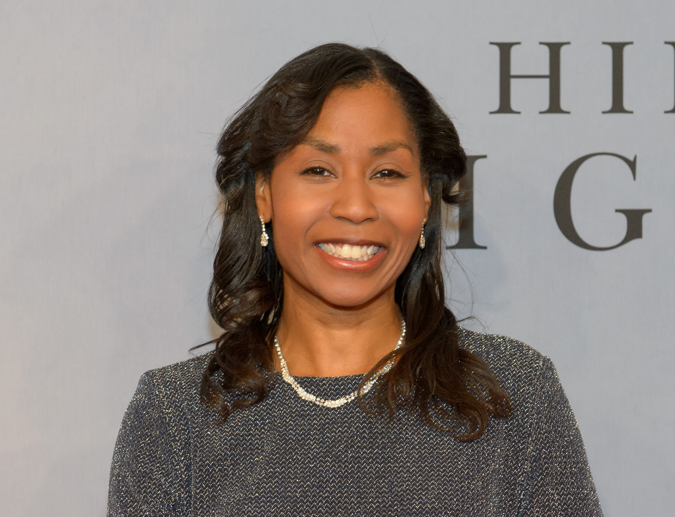 NASA astronaut Stephanie Wilson arrives on the red carpet for the global celebration of the film "Hidden Figures" at the SVA Theatre, Saturday, Dec. 10, 2016 in New York. The film is based on the book of the same title, by Margot Lee Shetterly, and chronicles the lives of Katherine Johnson, Dorothy Vaughan and Mary Jackson -- African-American women working at NASA as “human computers,” who were critical to the success of John Glenn’s Friendship 7 mission in 1962.